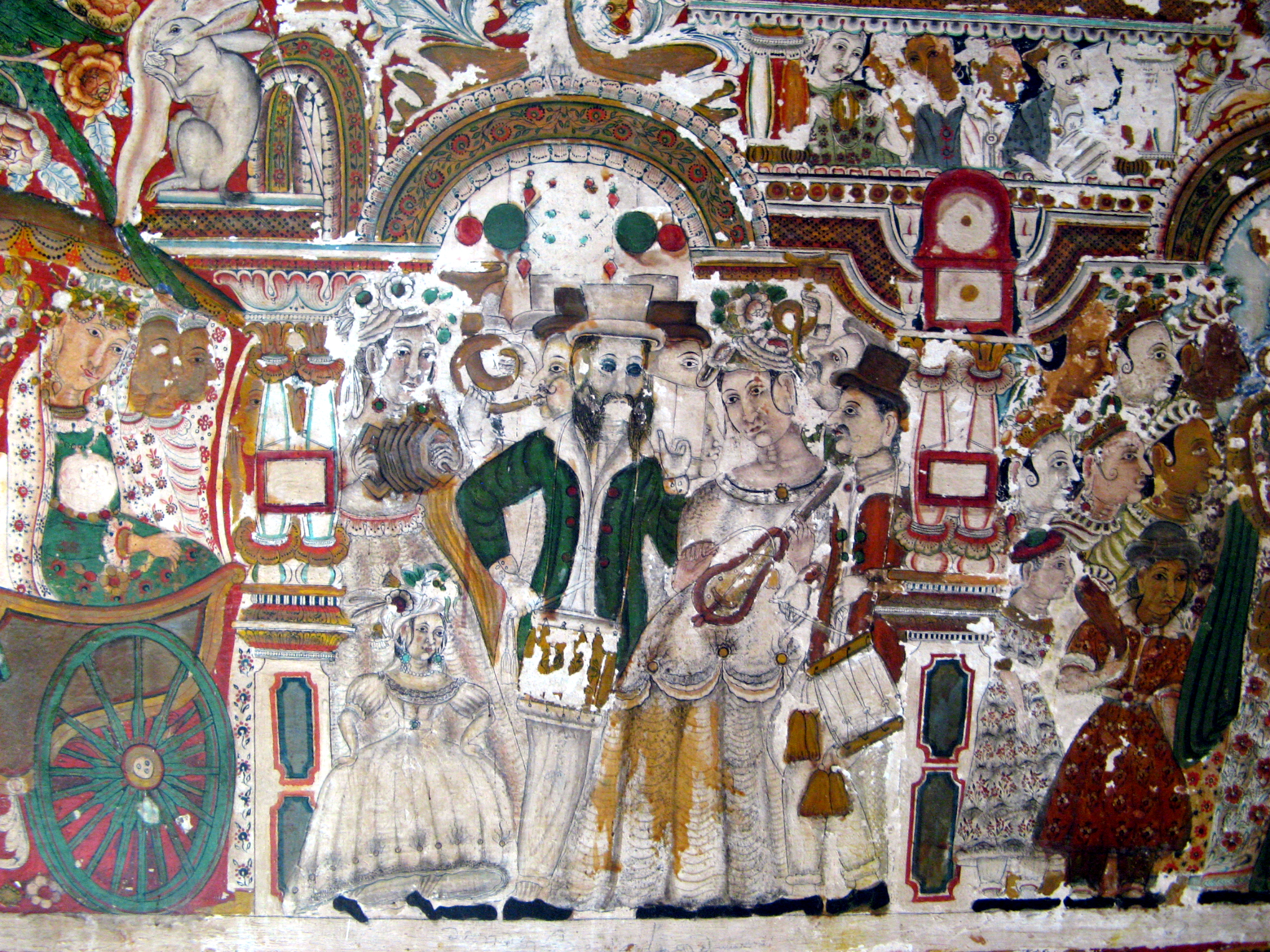 It is always interesting "To see ourselves (Europeans) as others see us." In this small vignette from a late-19th-century wall painting, a crowd of festively-dressed British men and women plays instruments that include drums, an accordion, a hurdy-gurdy, and a coiled brass horn. This probably represents a Christmas holiday celebration, since one can see what looks like hanging ornaments in the background.